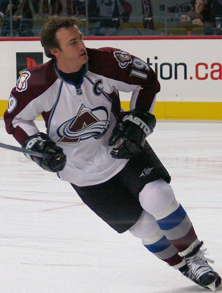 Joe Sakic warming up before a game. Calgary, Alberta